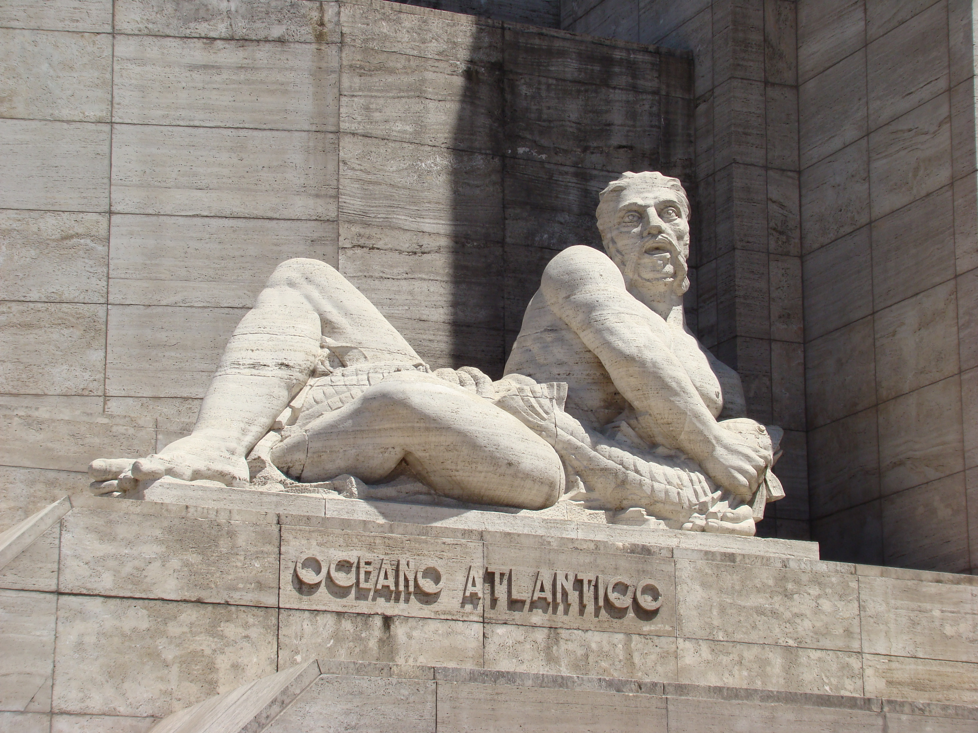 Statue representing the Atlantic Ocean (5 x 3 x 1,50 m.), on one side of the National Flag Memorial, in Rosario, Argentina. By Alfredo Bigatti.